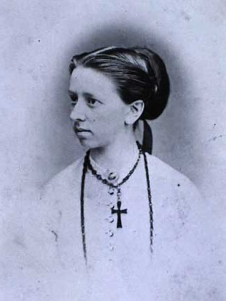 Ida Mariette Helene Falbe-Hansen (1849-1922), Danish women's rights activist and literary historian